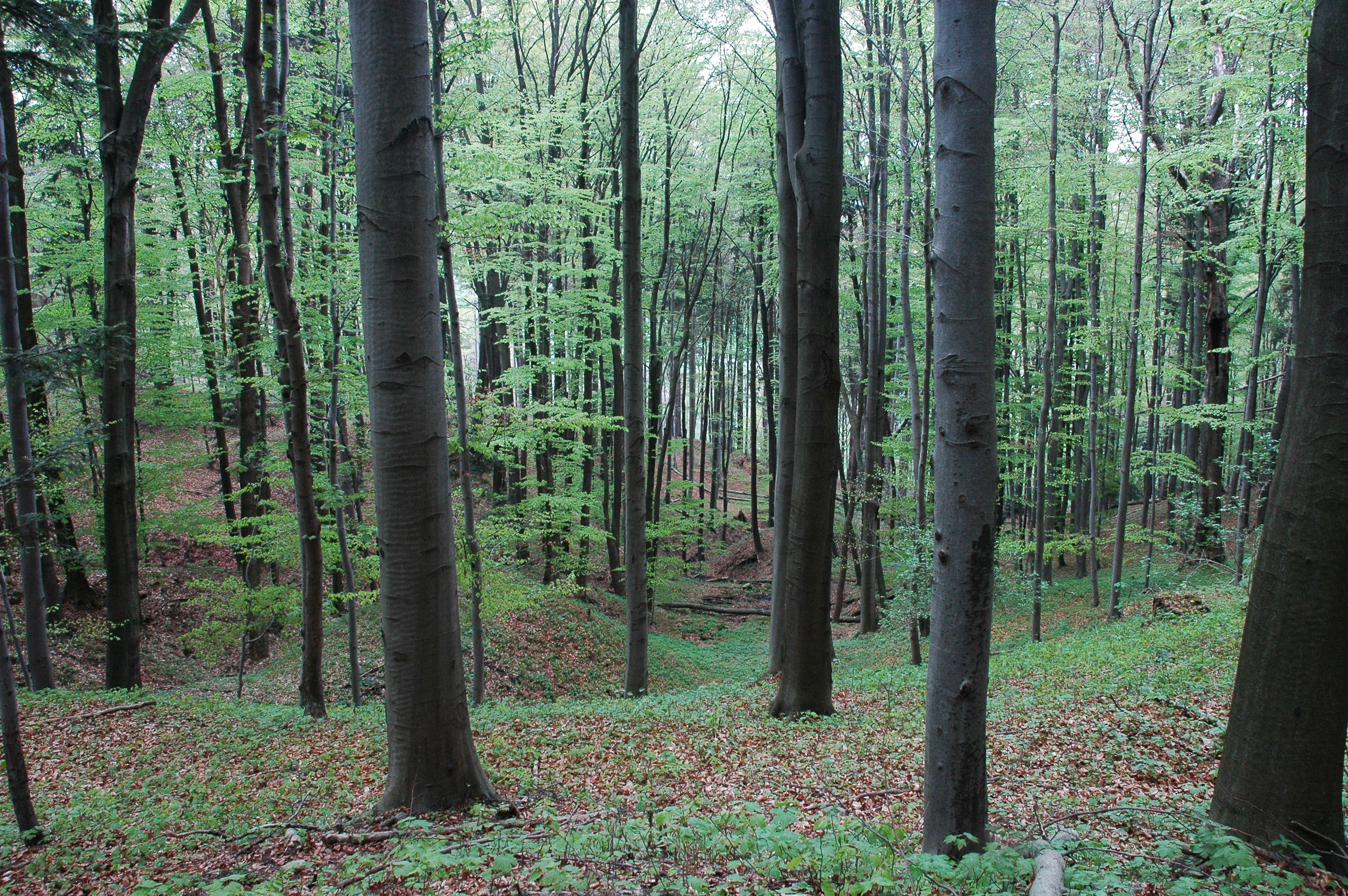 Nature reserve Vápenice in Chrudim District, Czech Republic